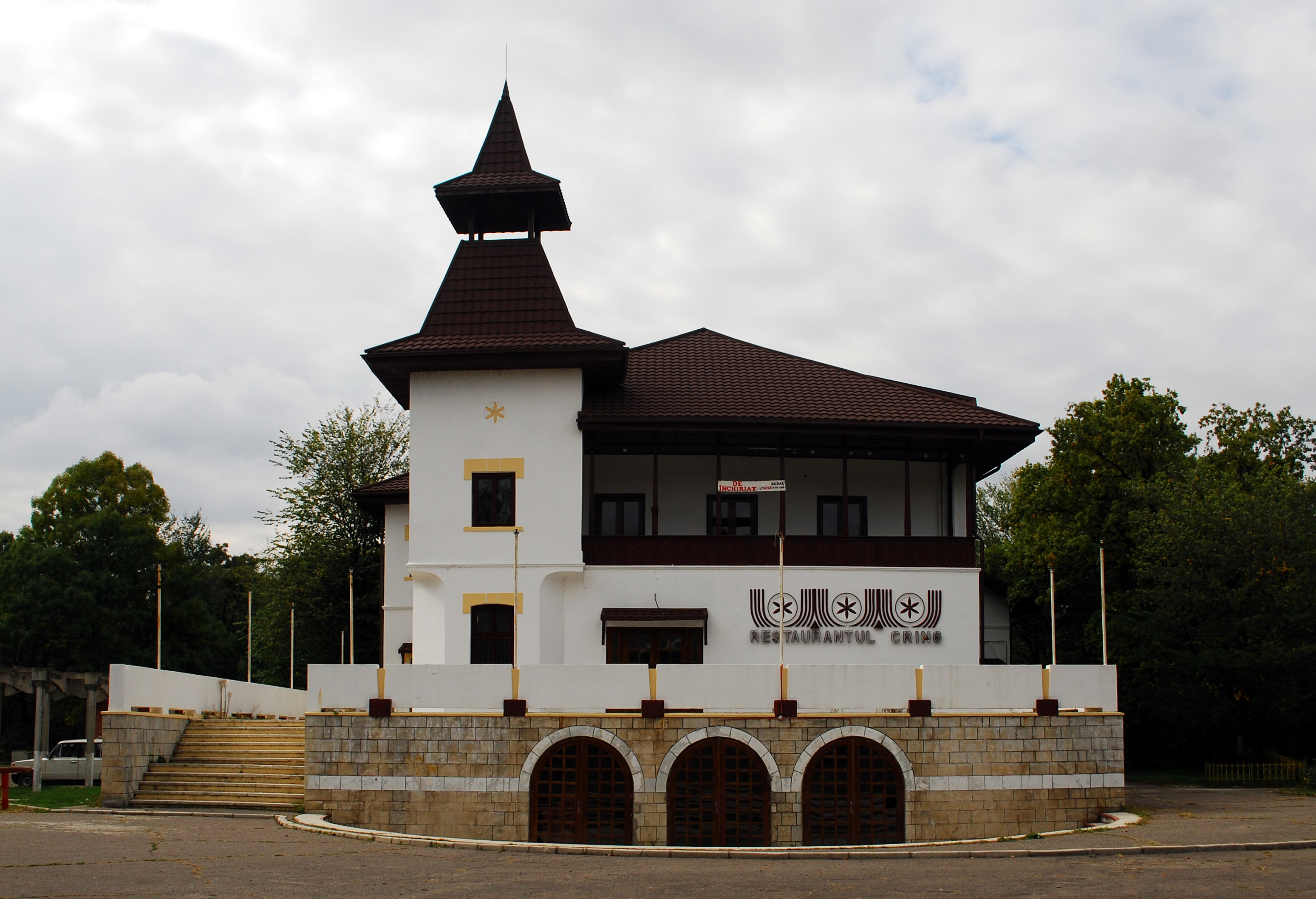 The restaurant in Crâng Park, Buzău, Romania